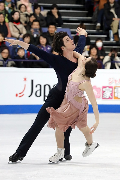 Tessa Virtue and Scott Moir at the 2017 World Championships